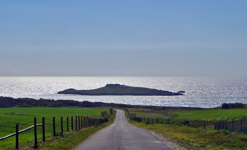 Pessegueiro Island, Nature Park of Southwest Alentejo and Cape St. Vicente Coast